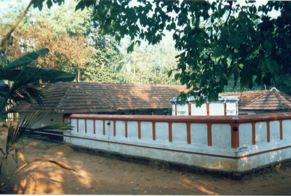 Kattuputhoor Siva Temple, Edappatta, Kerala